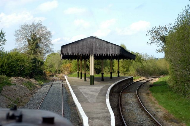 Downpatrick Loop Platform. A drivers eyeview approaching Downpatrick Loop Platform from Newcastle/ The line that the engone is travelling on, runs directly to Belfast. But now days, as the DCDR is a preserved railway, it runs to Inch Abbey. The line to the right runs to Downpatrick.